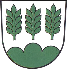 Coat of arms of Eschenbergen